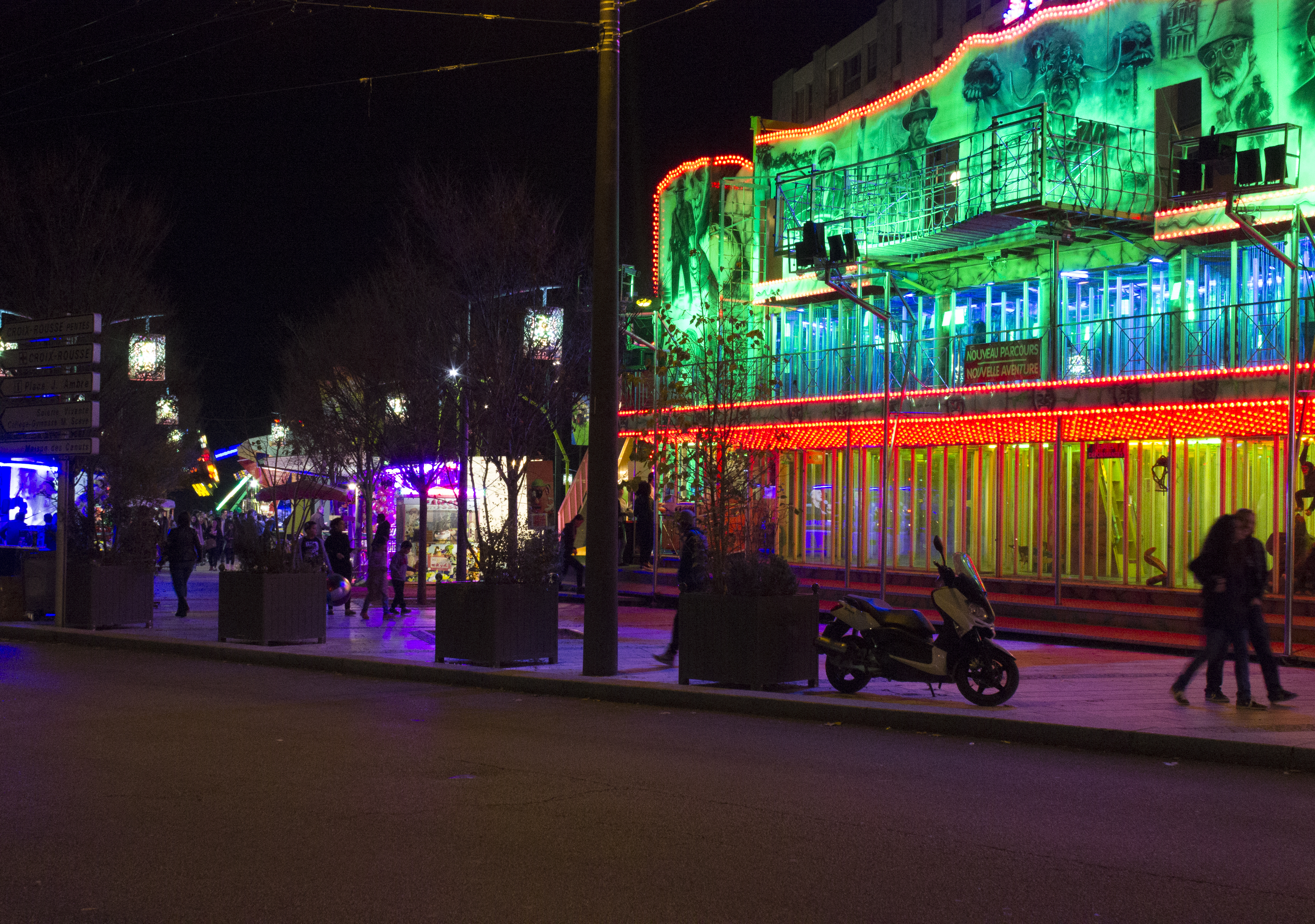 Boulevard de la Croix-Rousse in Lyon, during the vogue des marrons funfair in 2015, by night.